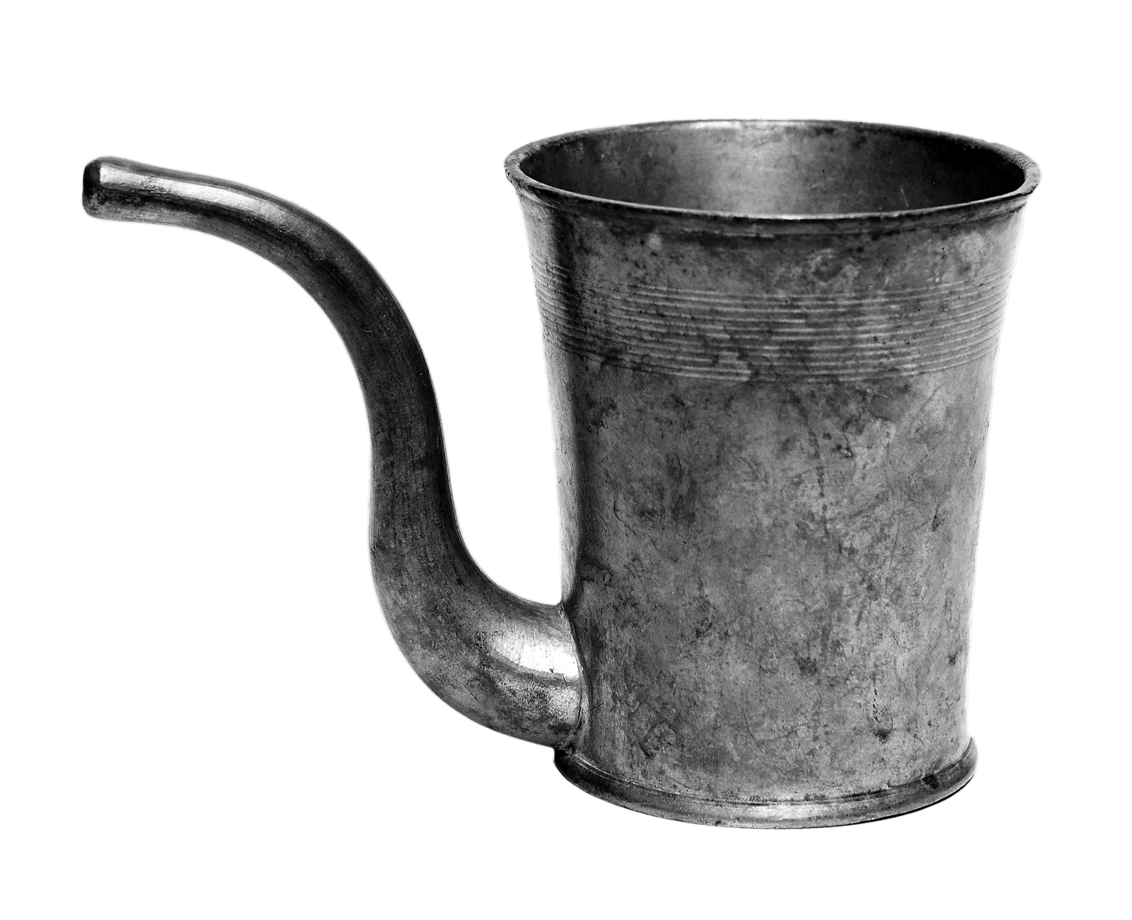 Pewter feeding-cup with bubby-pot feeder Wellcome Images Keywords: Child Welfare